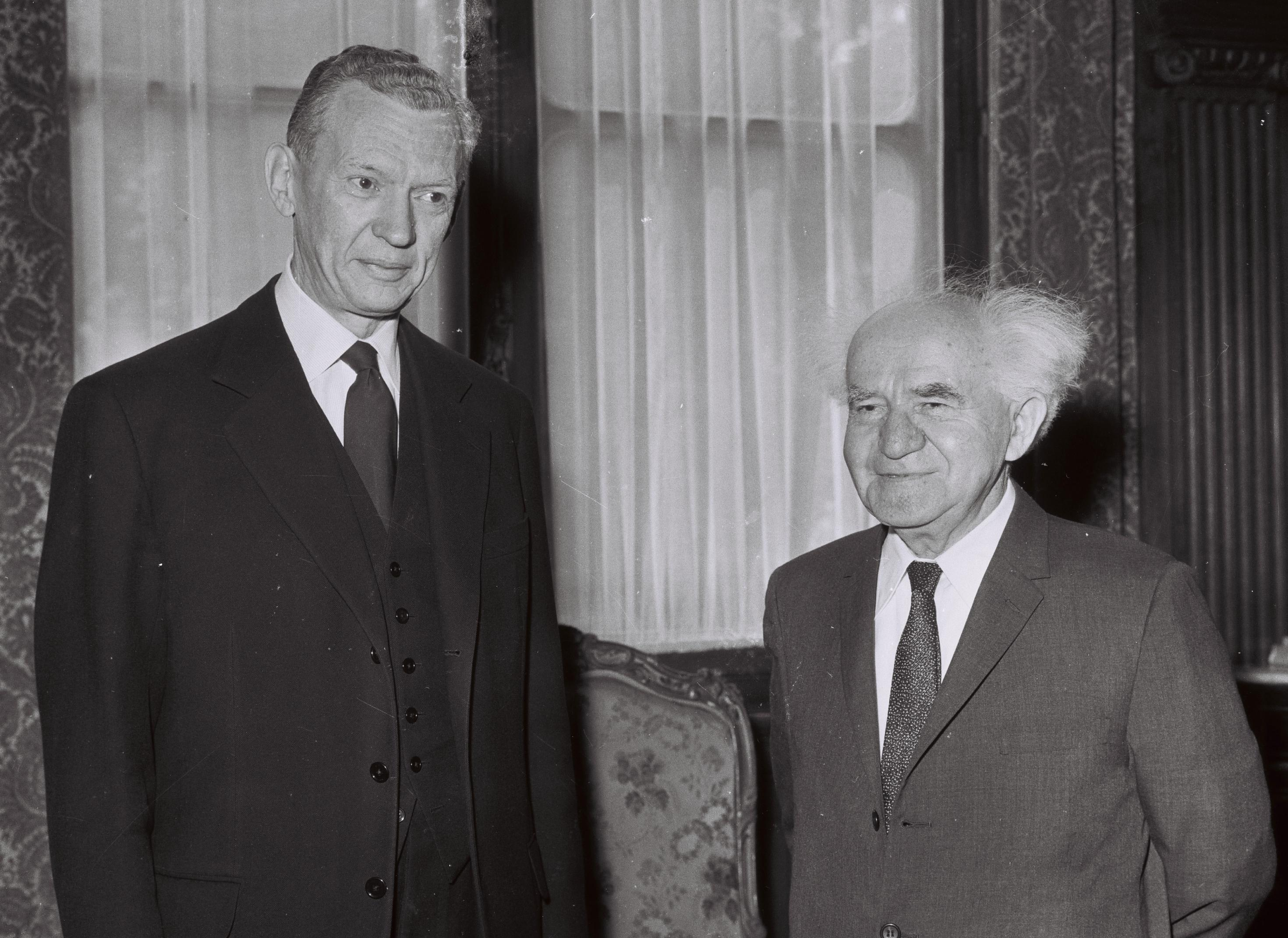 David Ben Gurion, Prime Minister of Israel, received by the foreign minister of France, Maurice Couve de Murville, at Quai d'Orsay.